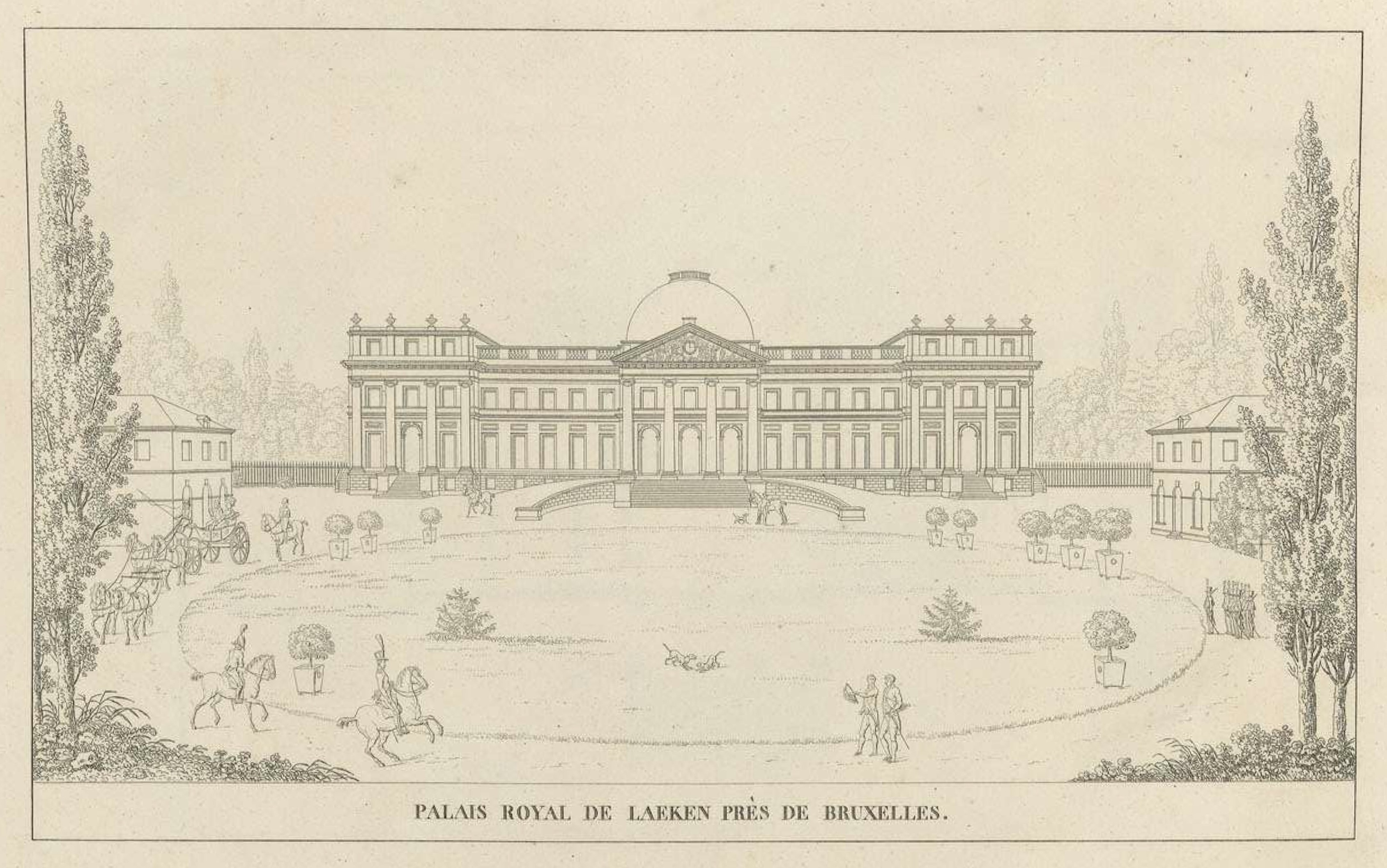 Pierre-Jacques Goetghebuer (1788-1866) became professor of architecture in Ghent, after his studies for architectural drawing at the local art academy. From 1817 he started working on a publication with images of the most remarkable buildings from the newly created United Kingdom of the Netherlands. This book would include both old and contemporary, neoclassicist buildings. Most of the 120 plates depict buildings from the Southern Netherlands, especially Brussels and Ghent. Goetghebuer executed the engravings based upon his own sketches or designs by the architects themselves. Other artists finished the engravings in aquatint. Goetghebuer published this collection of engravings in 1827 with publisher André Benoît II Steven, and he dedicated them to King William I. Many buildings in this book have since disappeared, hence its significant historical importance. Also published in Dutch, with the title Verzameling der merkwaardigste gebouwen in het Koningrijk der Nederlanden.